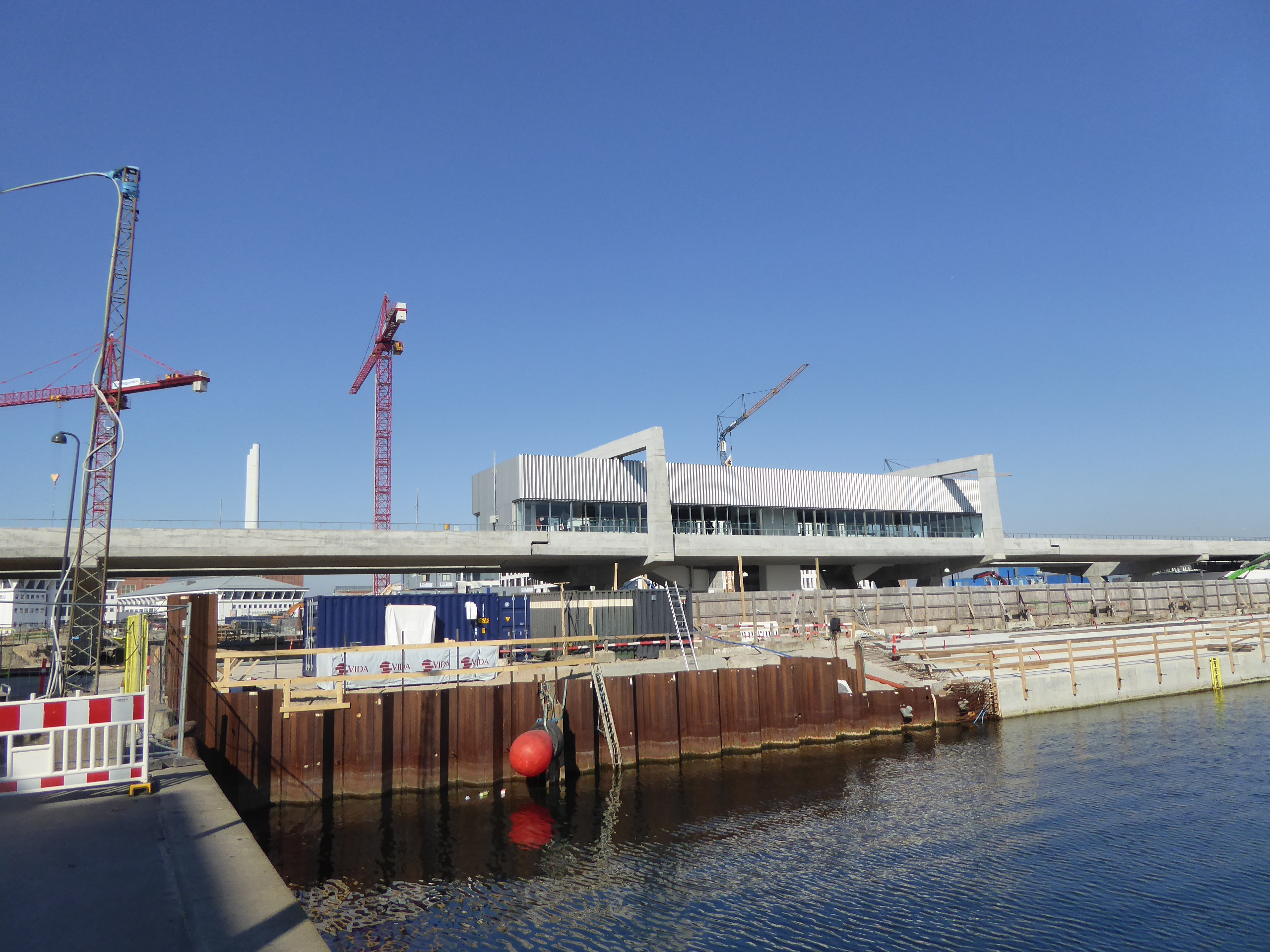 The new Orientkaj Station at Orientbassinet on the opening day of Nordhavnsmetroen (the Nordhavn Metro) in Copenhagen. Due to the Corona Virus the opening happened with as little fanfare as possible.